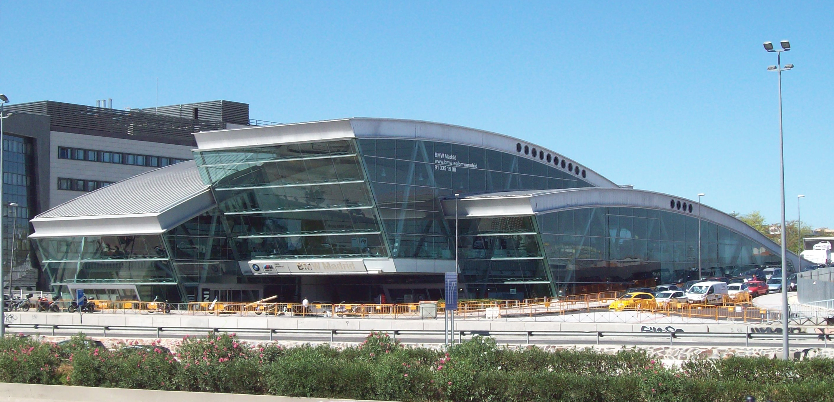 View of BMW dealership in Las Tablas neighborhood in Madrid (Spain).